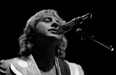 Greg Lake: Maple Leaf Gardens, performing with Emerson, Lake, and Palmer in Toronto, Feb. 3, 1978 Photo by Jean-Luc Ourlin